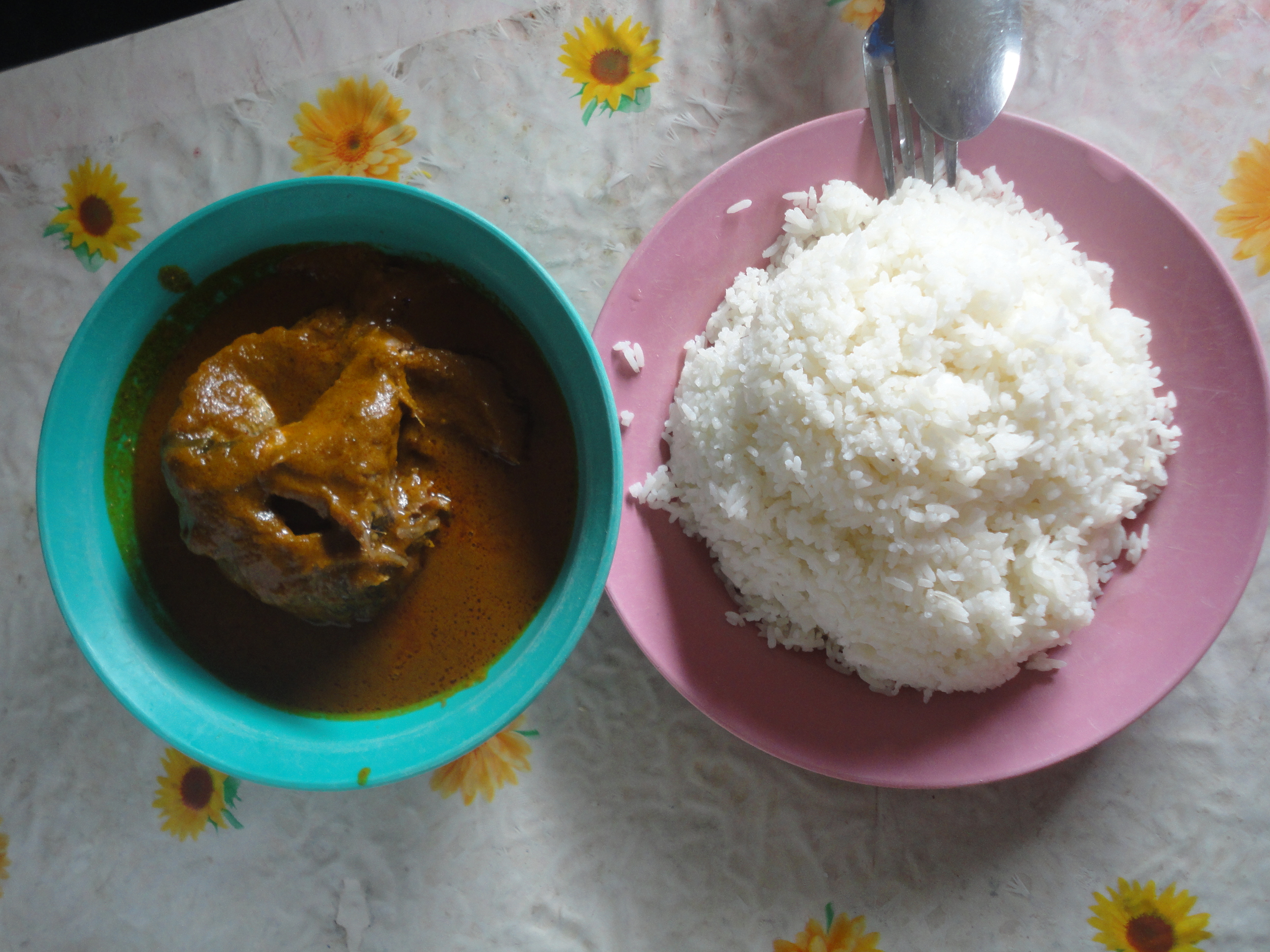 This is an image of food from Ivory Coast